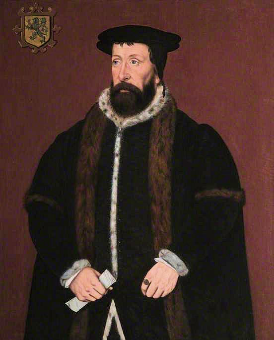 Painting of Sir John Mason, Tudor diplomat and courtier, attributed to Sampson Strong. From the collection of Christ's Hospital, Abingdon.